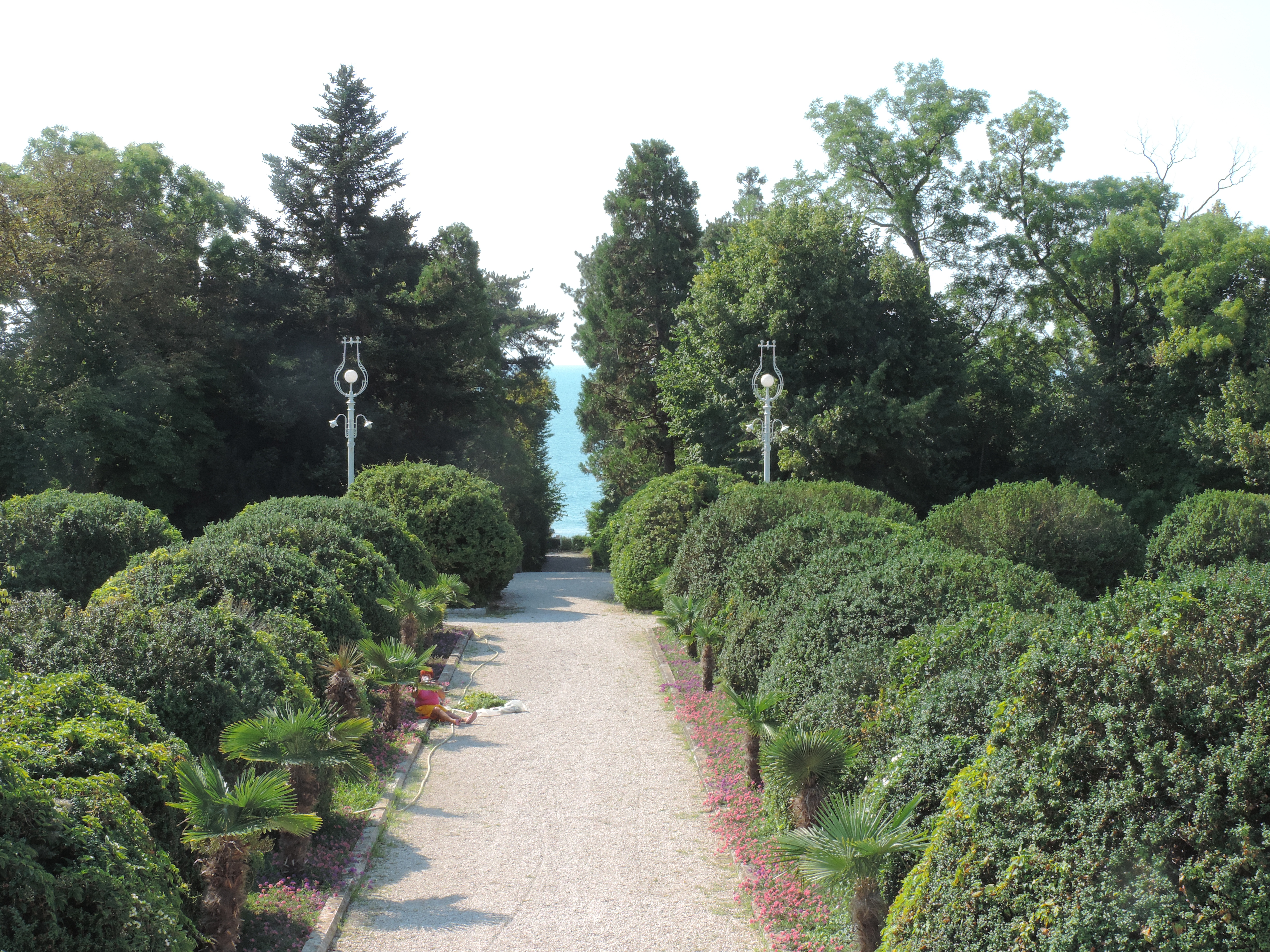 Euxinograd is a late 19th-century Bulgarian former royal summer palace and park on the Black Sea coast, 8 kilometres (5.0 mi) north of downtown Varna. The palace is currently a governmental and presidential retreat hosting cabinet meetings in the summer and offering access for tourists to several villas and hotels. Since 2007, it is also the venue of the Operosa opera festival. Euxinograd is situated at an altitude of 49 m. The park and palace were closed until the summer of 2016 due to extensive renovations.